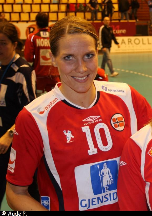 Gro Hammerseng, Norwegian handball player, after a friendly match between the national teams of Norway and France in Clermont-Ferrand, France, on 5 March 2009.